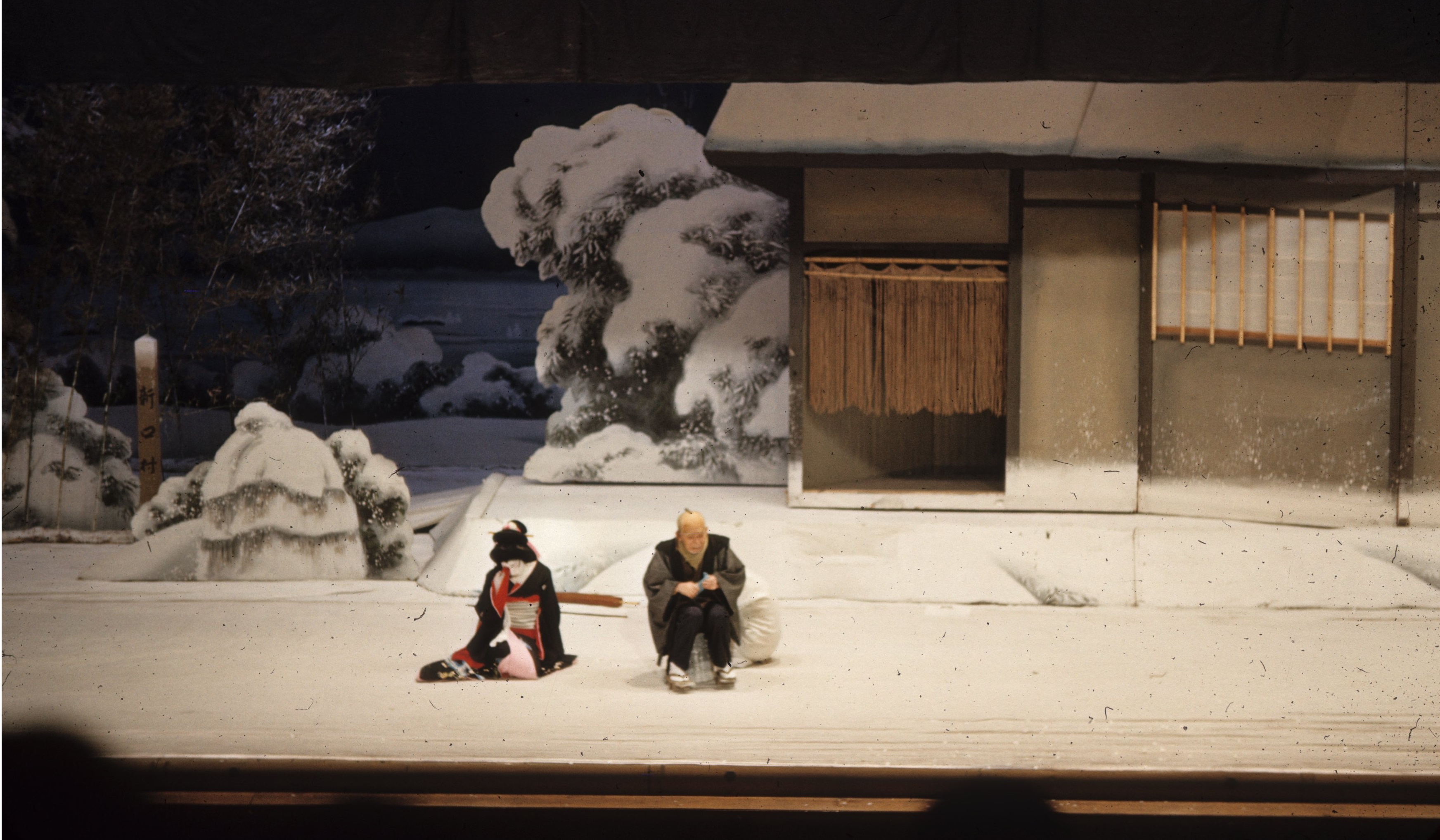 Photograph of a performance at the Kabuki-za theater, Tokyo. March 1952.